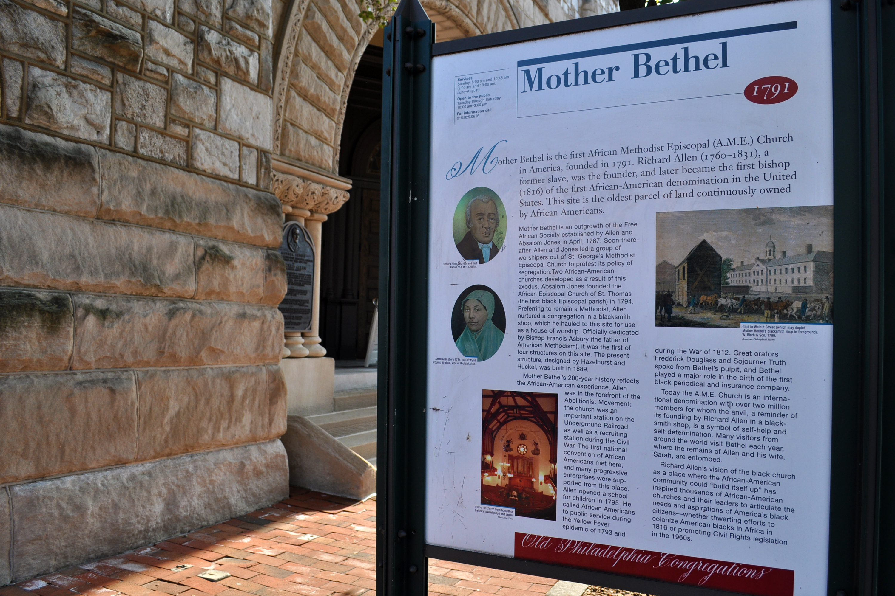 Mother Bethel A.M.E. Church History Marker, 6th and Lombard Sts. Philadelphia PA